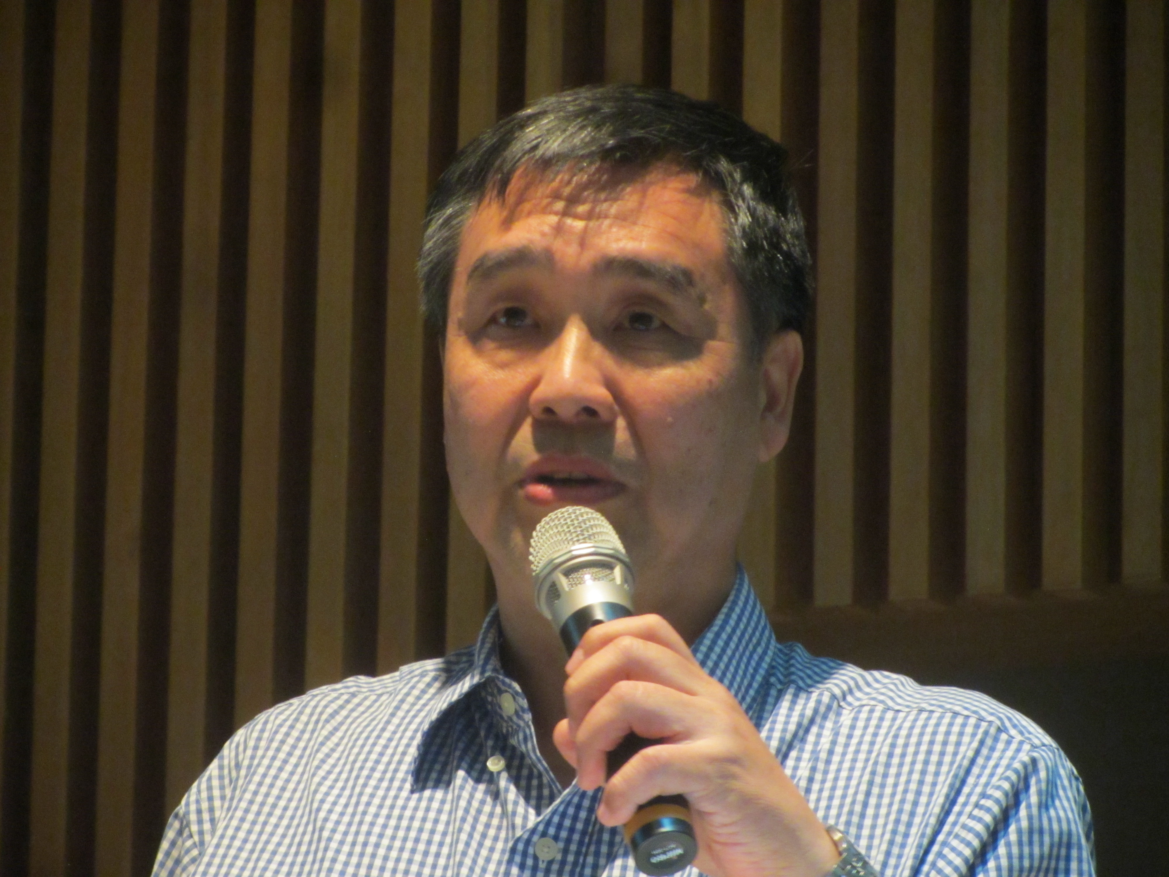 Taiwanese Geophysicists Benjamin Fong Chao